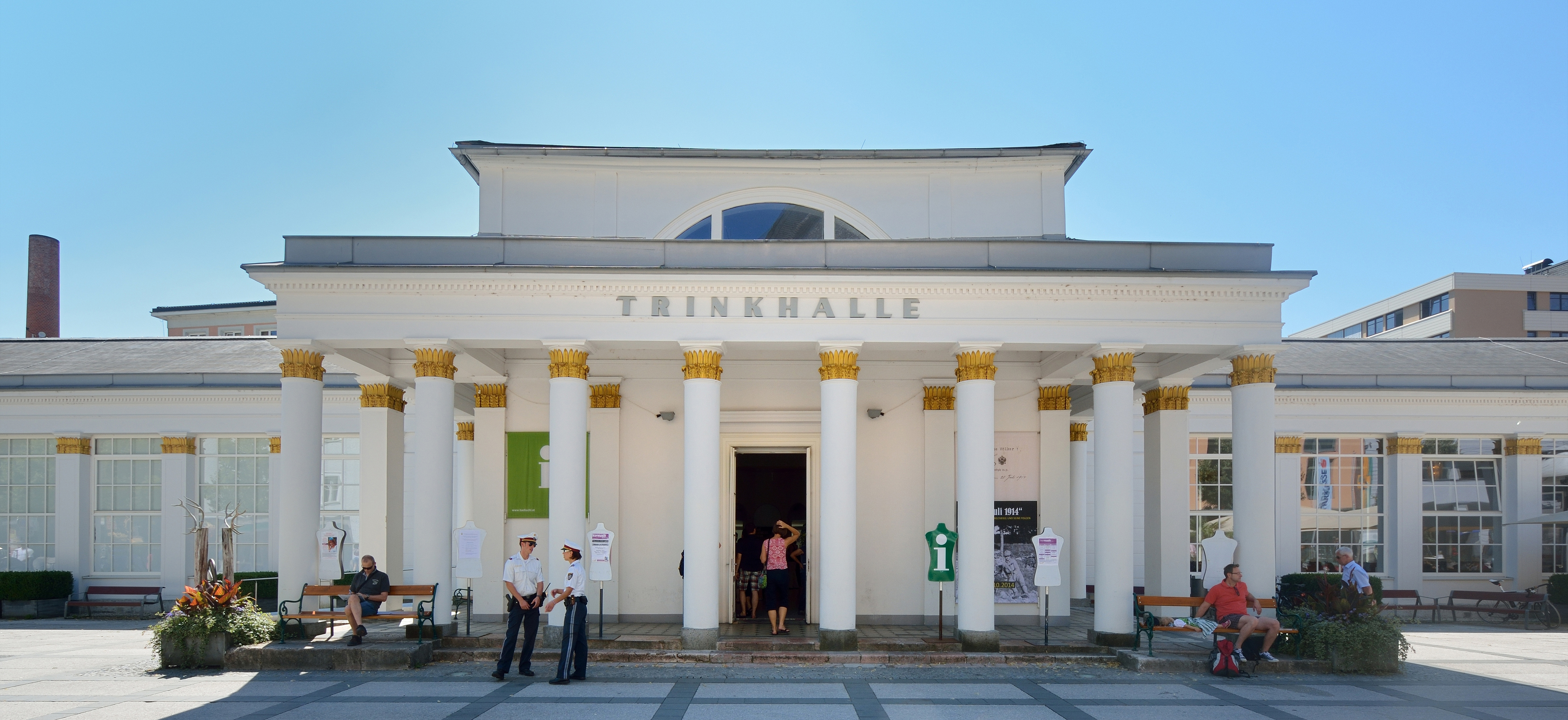 Former Trinkhalle, Bad Ischl, Upper Austria